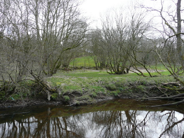 The remains of Trabboch mill The remains of Trabboch mill next to the river coyle.